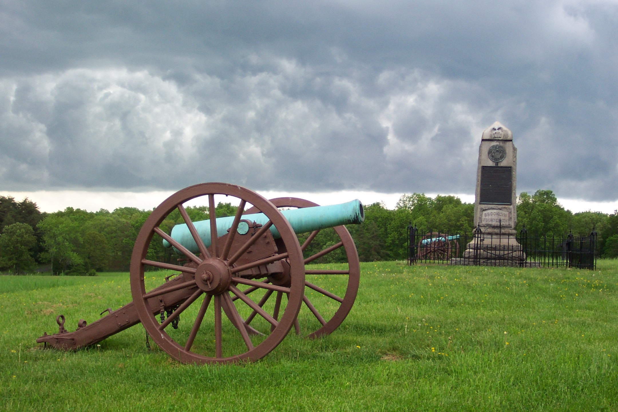 A cannon with the 14th Brooklyn Battery Monument in the backgroun on a cloudy day